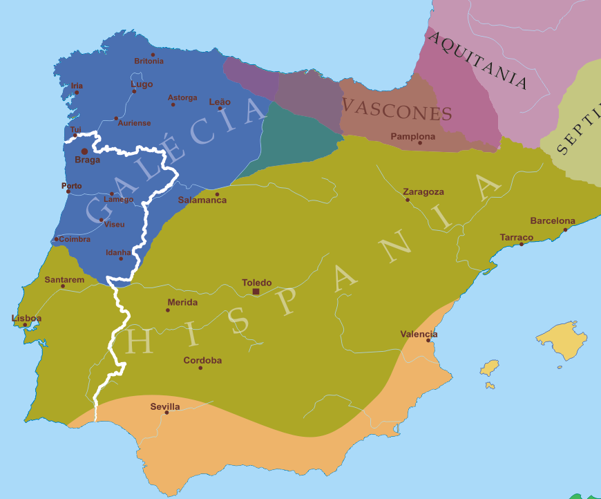 This maps shows the actual territory of Portugal in 6th century. Suevic and Visigothic kingdoms.